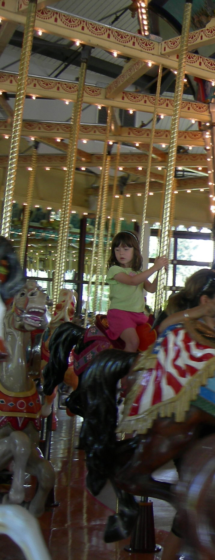 Carousel, Woodland Park Zoo, Seattle, Washington. Hand-carved carousel originally built for the Cincinnati Zoo in 1918 by the Philadelphia Toboggan Company, head carver John Zalar. In the 1970s, the carousel was moved to Santa Clara, California, where it operated into the 1990s. It was donated to WPZ by the Alleniana Foundation, and opened May 1, 2007 in a new pavilion on the zoo's North Meadow.